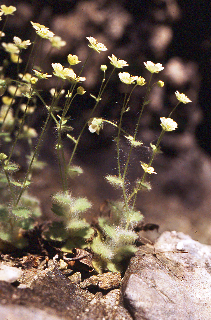 Saxifraga arachnoidea Sternb.